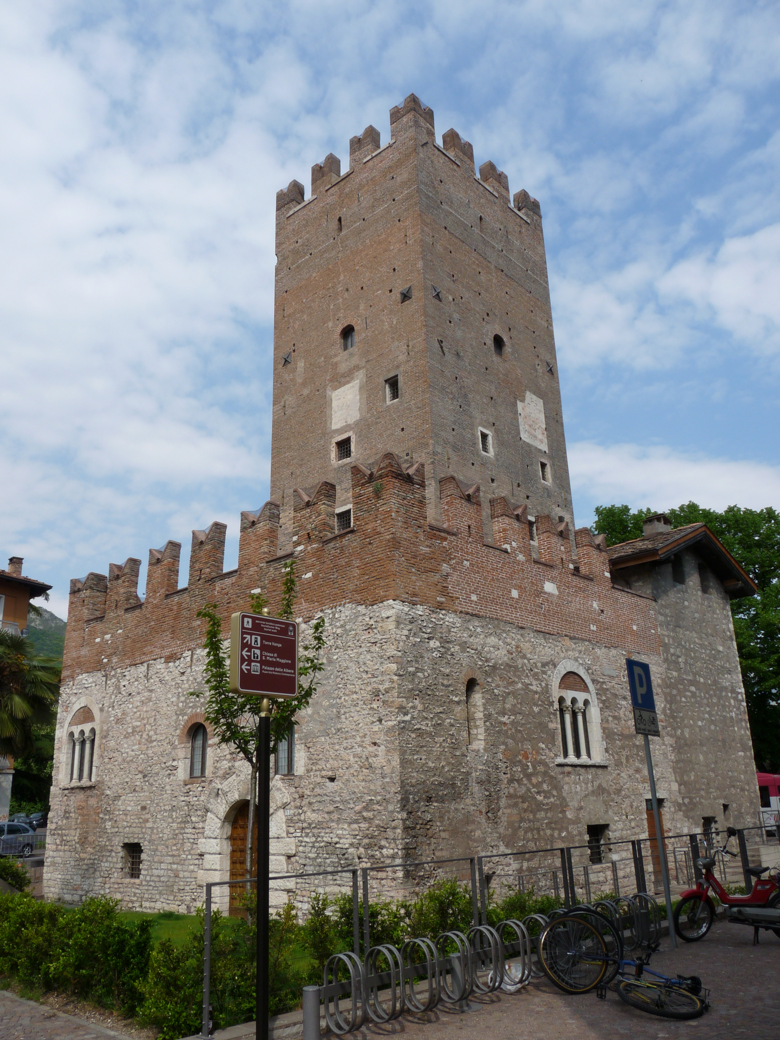 Trento (Italy): southeastern side of Torre Vanga (Vanga tower)